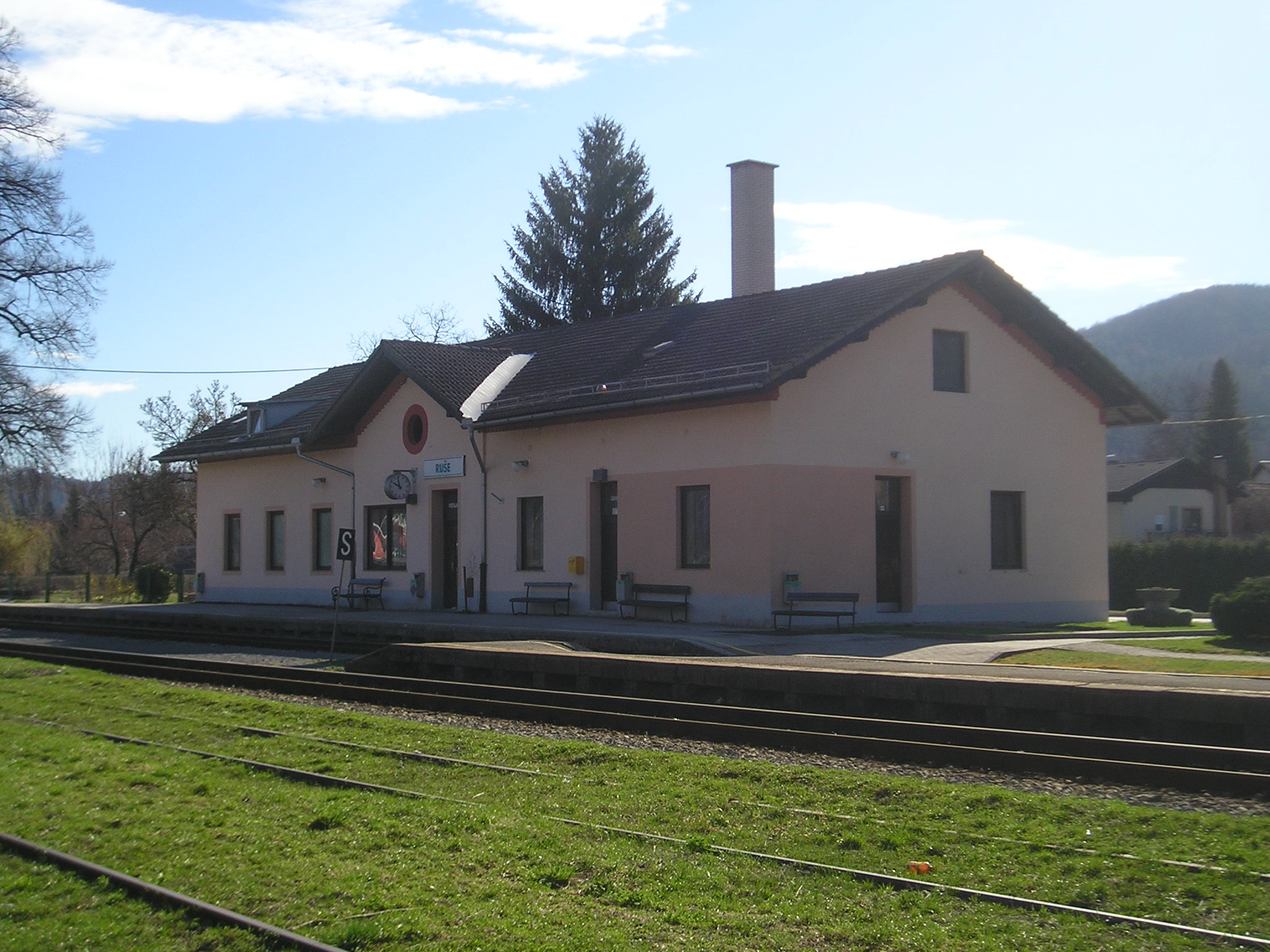 Train station in Ruše, Slovenia